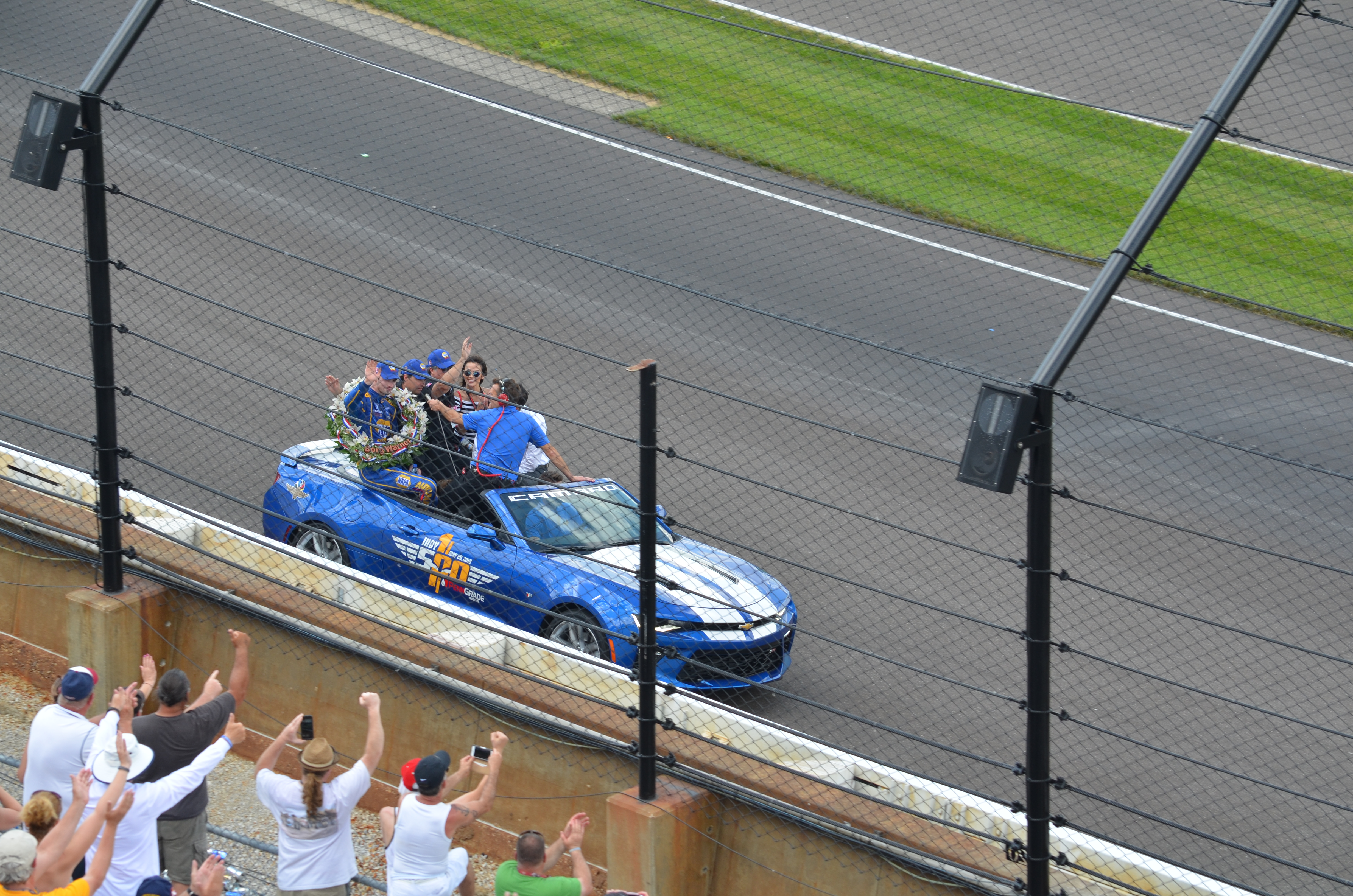 Alexander Rossi at the 2016 Indianapolis 500